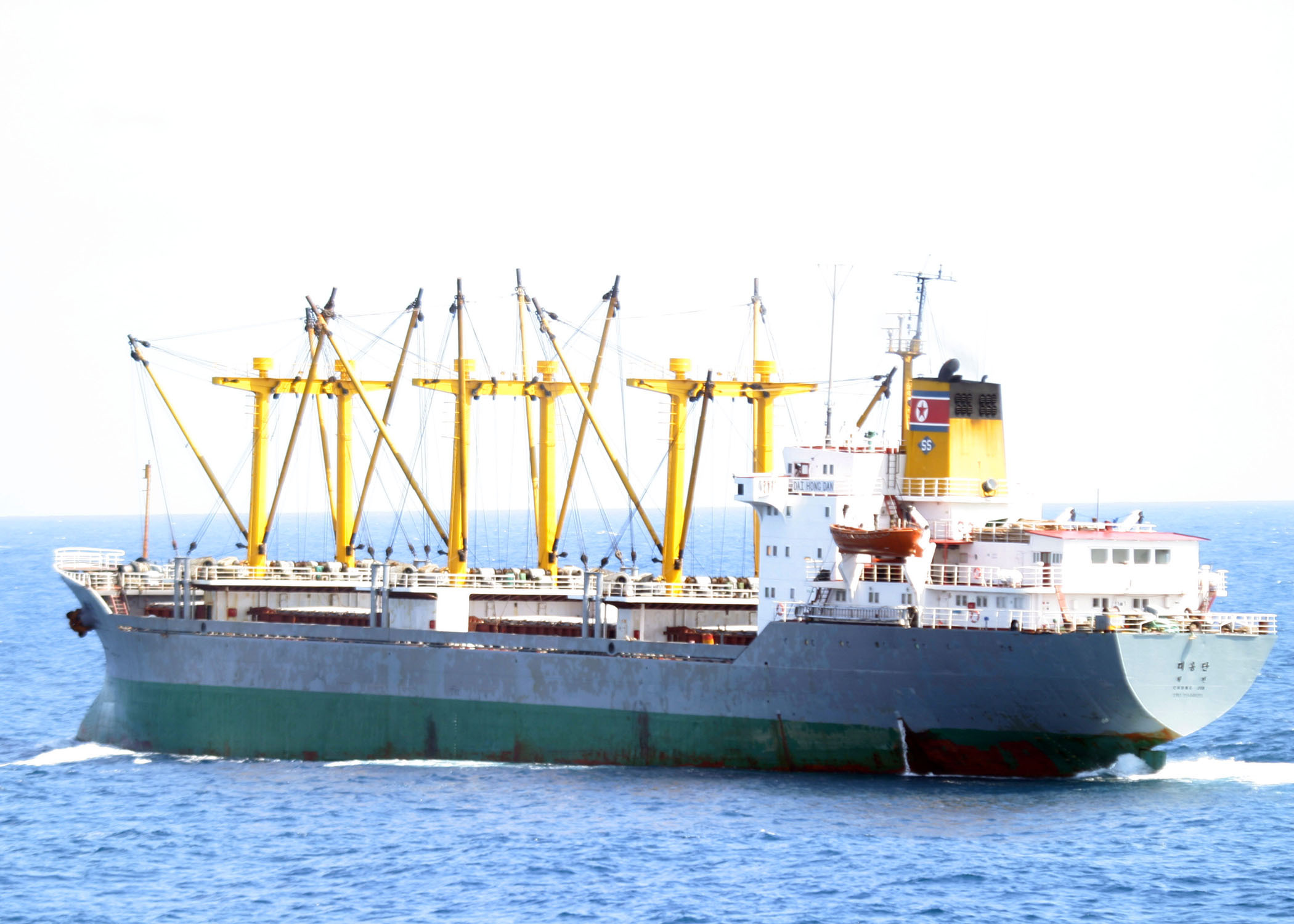 North Korean cargo vessel Dai Hong Dan was hijacked by pirates off the coast of Somalia, Oct. 29, but the crew regained control of the ship. U.S. Navy Ship USS James E. Williams responded to the distress call and provided medical assistance. Combined Task Force 150, one of three task forces under Combined Maritime Forces provides Maritime Security Operations in the waters off the coast of Somalia and Horn of Africa. MSO helps set the conditions for security and stability in the maritime environment and complement the counterterrorism and security efforts in regional nations� littoral waters. Coalition forces also conduct MSO under international maritime conventions to ensure security and safety in international waters so commercial shipping and fishing can occur safely in the region. (U.S. Navy Photo/USS James E. Williams)